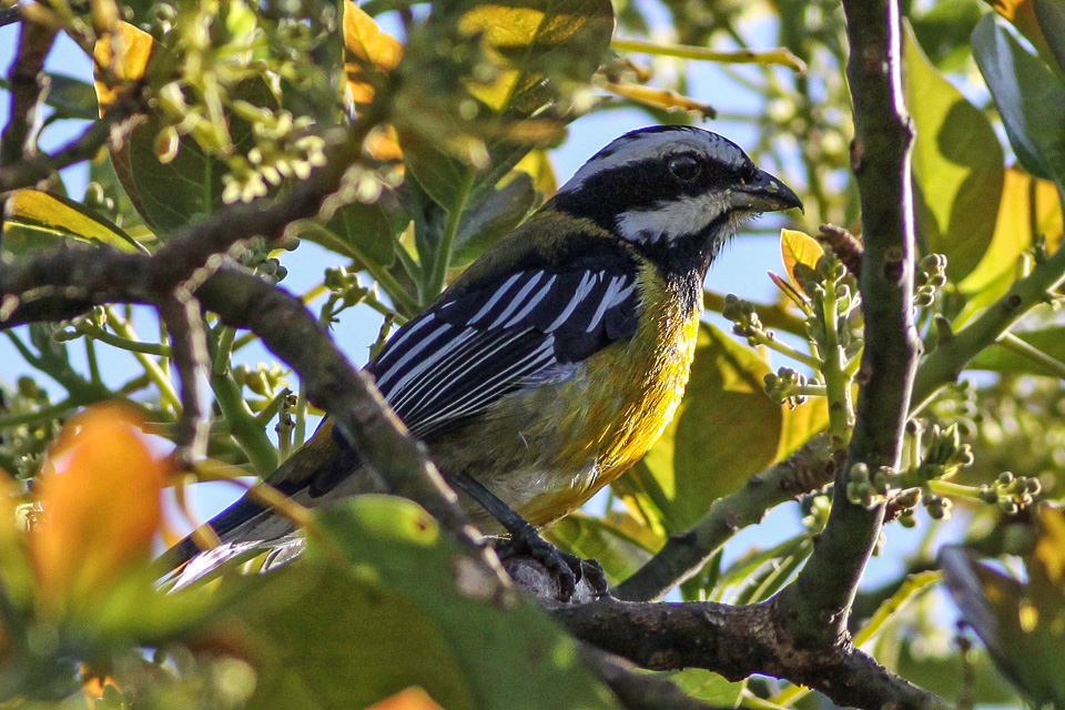 Cockpit Country